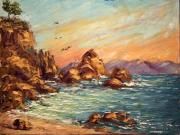 Painting